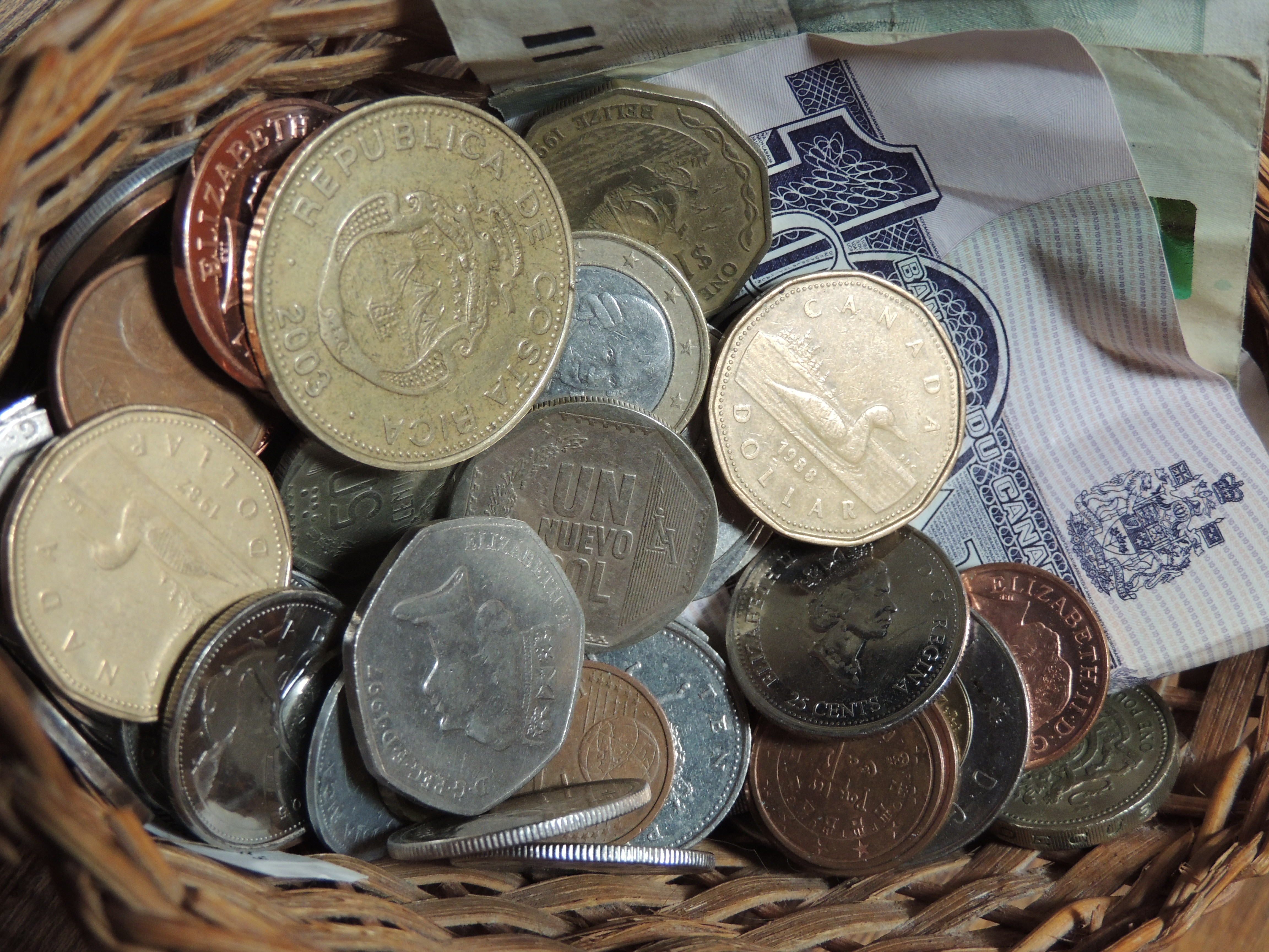 A basket of various coins and banknotes in multiple languages